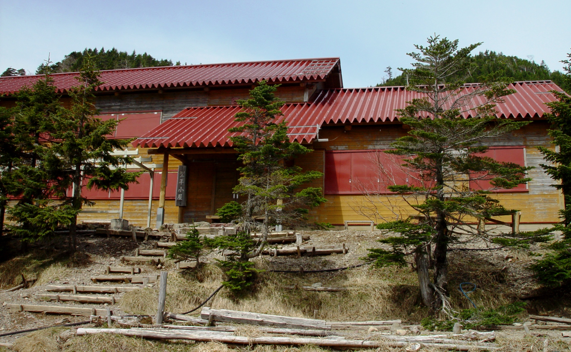 Hijiridaira huts in Mount Hijiri in Akaishi Mountains, Japan.